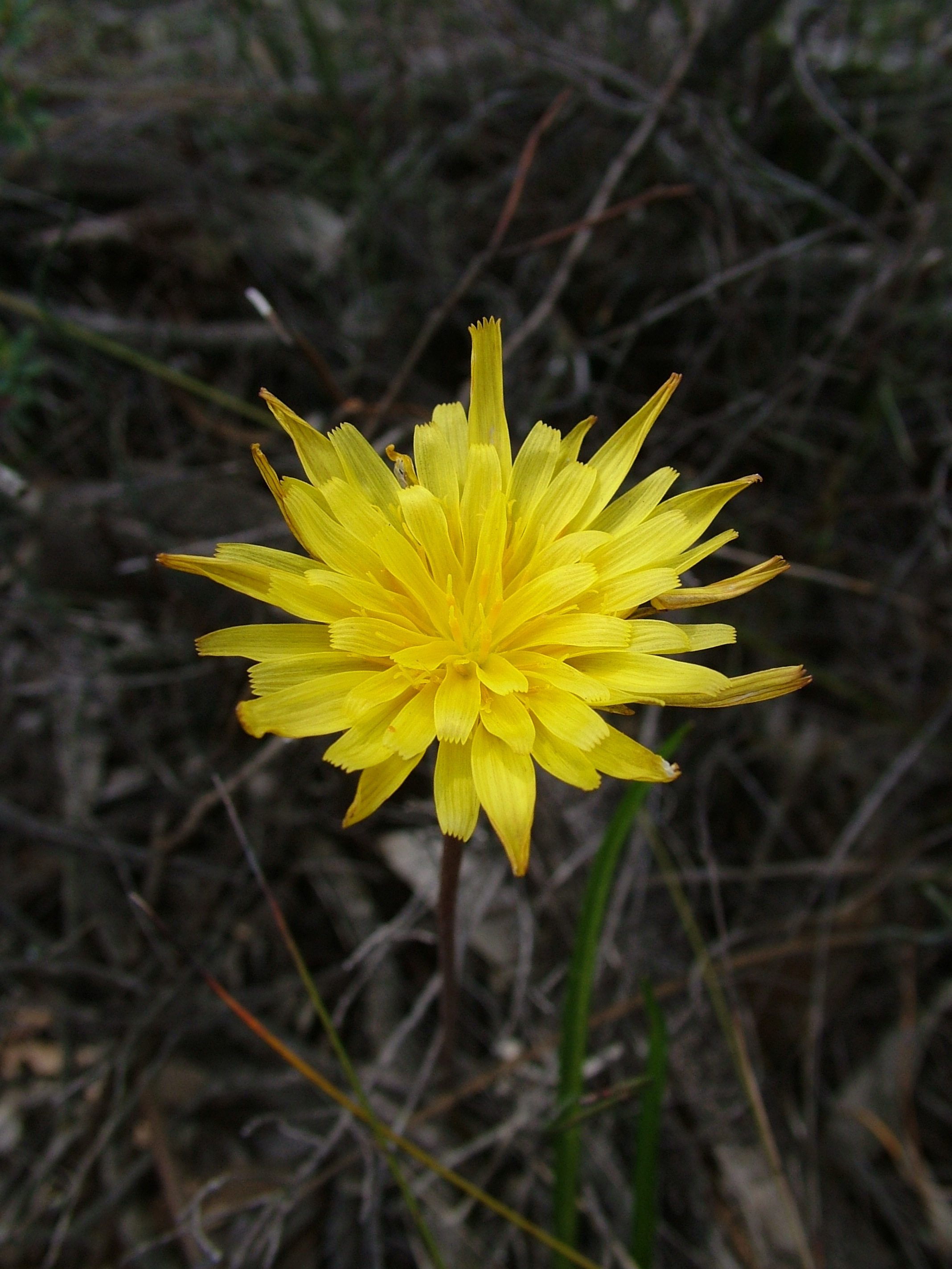 Microseris scapigera, Wail State Forest, Victoria, Australia, Oct 2009